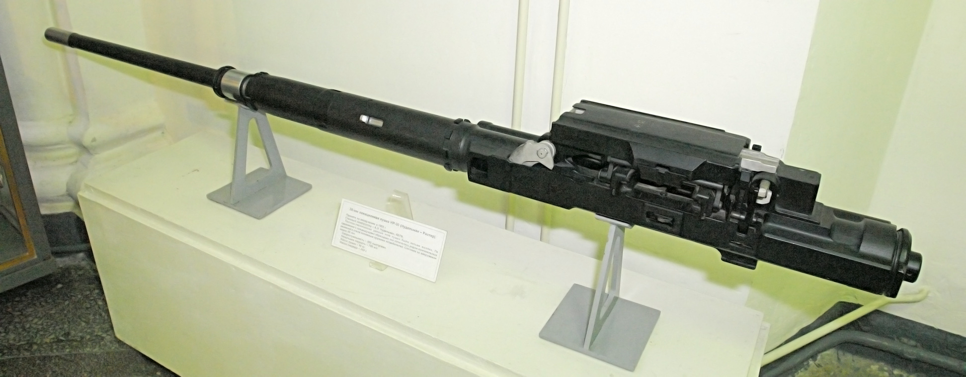 30-mm Automatic Gun HP-30 (Nudelman – Richter) Introduced in the Soviet Army 1955. Chief-designer: Alexander E. Nudelman. Aircraft-gun with high level tactical & technical details. Compared to earlier models, the gun retains a number of creative solutions; it became, for forty years, the most important Soviet aircraft weapon. Rate of fire: 900 rounds / minute. Muzzle velocity: 780 m / second. Gun weight: 66 kg. Round of ammunition weight: 410 g. Exposed in the Military-historical Museum of Artillery, Engineer and Signal Corps, St- Petersburg.